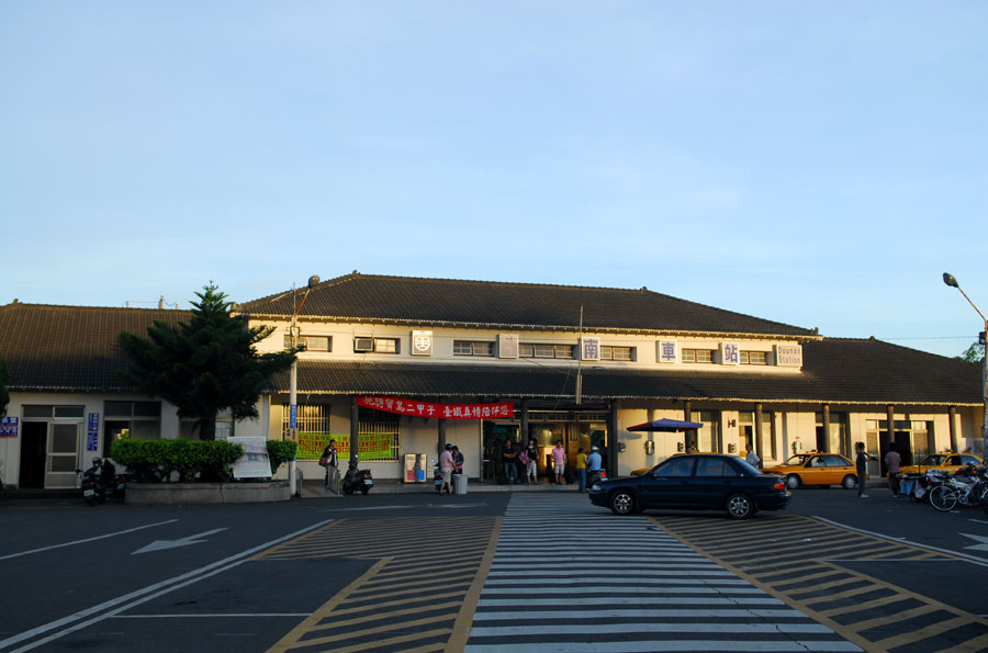 DouNan Station is a local train station of Taiwan's Western main rail line. It's the main station of DouNan Town, YunLin County. Bân-lâm-gú: Táu-lâm-tshia-tsām sī Tâi-thih Tsiòng-kuàn-suànn ê 1-tsō tē-hng tshia-tsām, sī Hûn-lîm Táu-lâm-tìn ê tsú-iàu tshia-tsām. 斗南車站是台鐵縱貫線的一座地方車站，是雲林縣斗南鎮的主要車站。